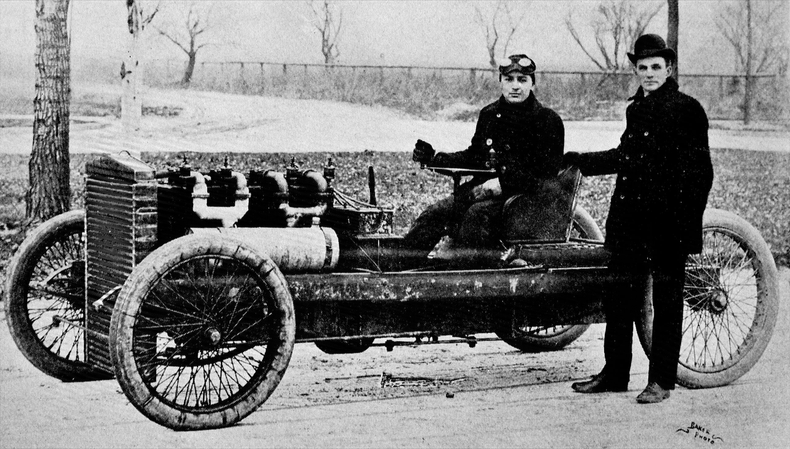 Henry Ford, standing, and Barney Oldfield in 1902, with the Ford 999 racing automobile.